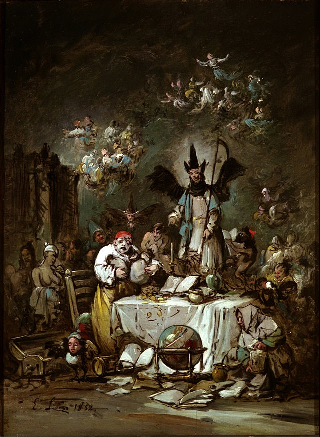 óleo sobre lienzo